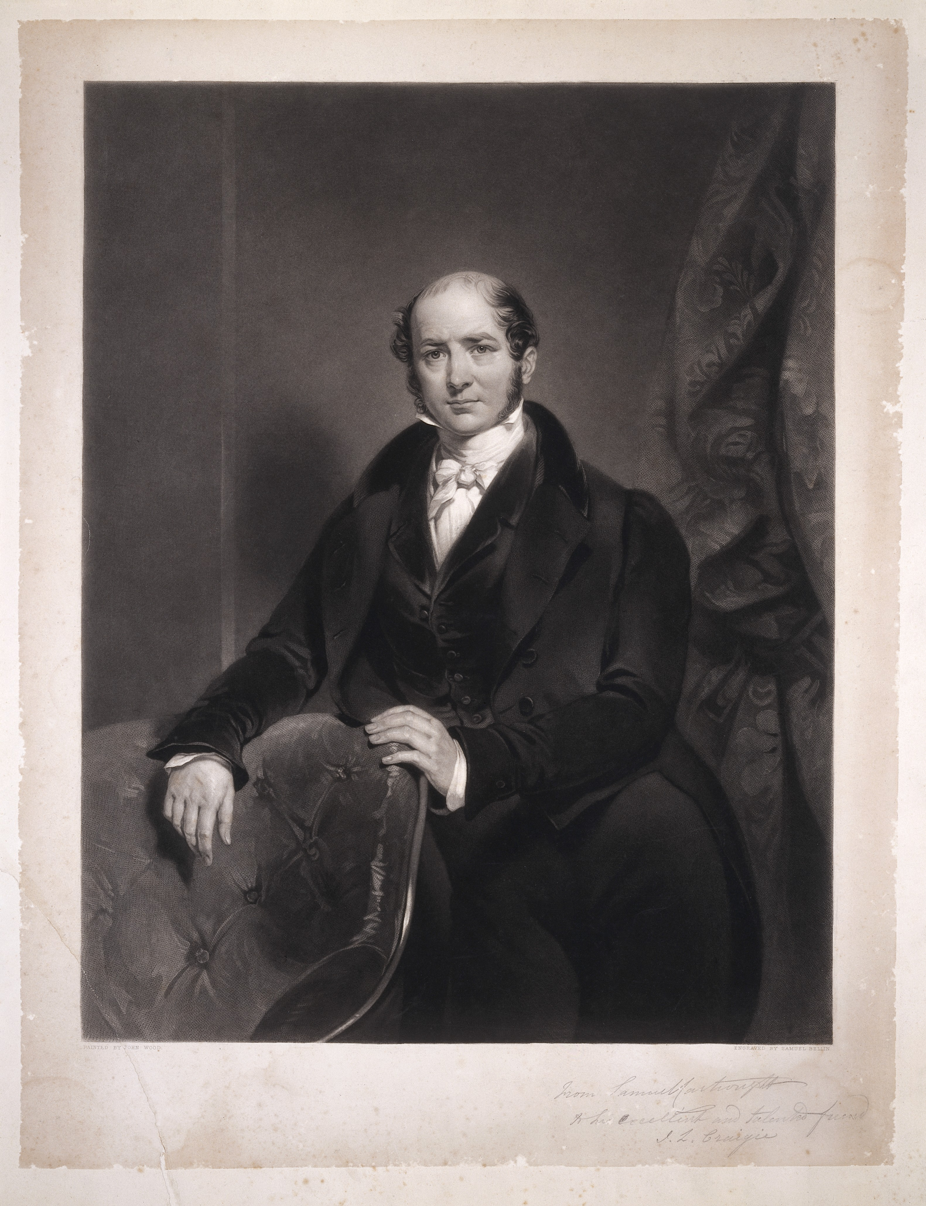 Samuel Cartwright, dental surgeon. Iconographic Collections Keywords: Samuel Bellin; Dentist; John Wood; Dentists